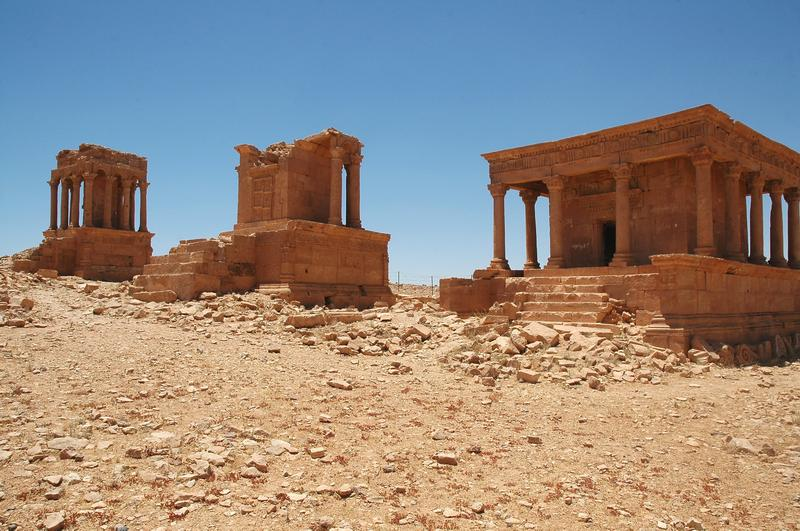 Northern cemetery of Ghirza